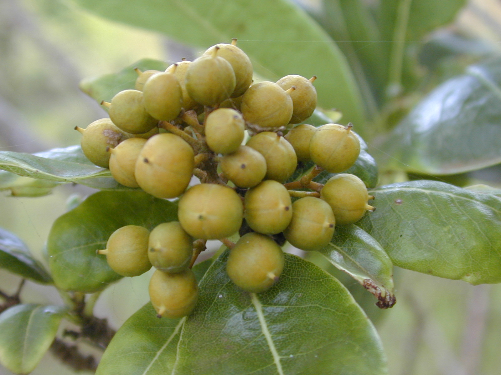 Pittosporum viridiflorum (fruits). Location: Maui, Waipoli Road Kula